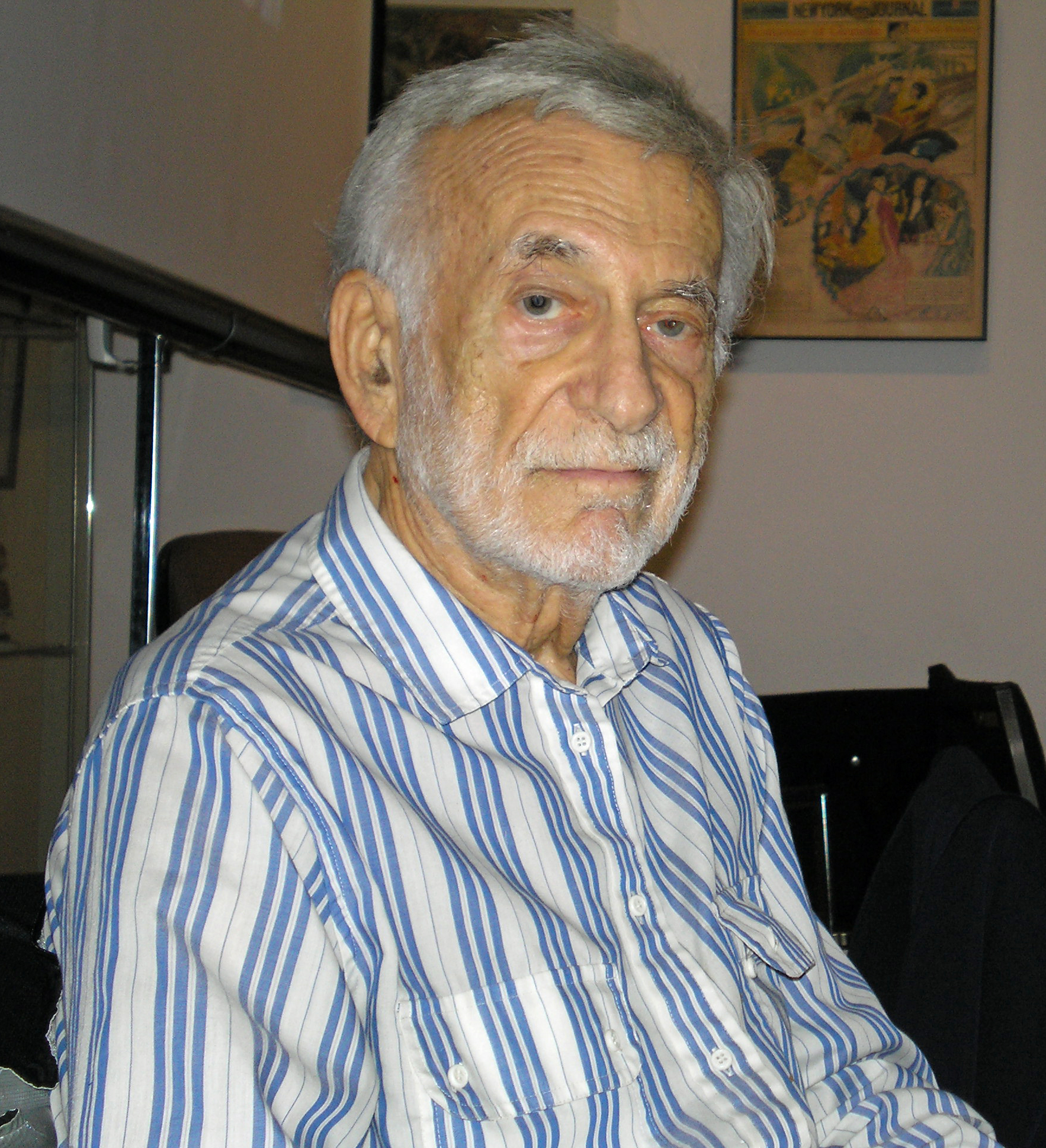 Jerry Robinson by David Shankbone